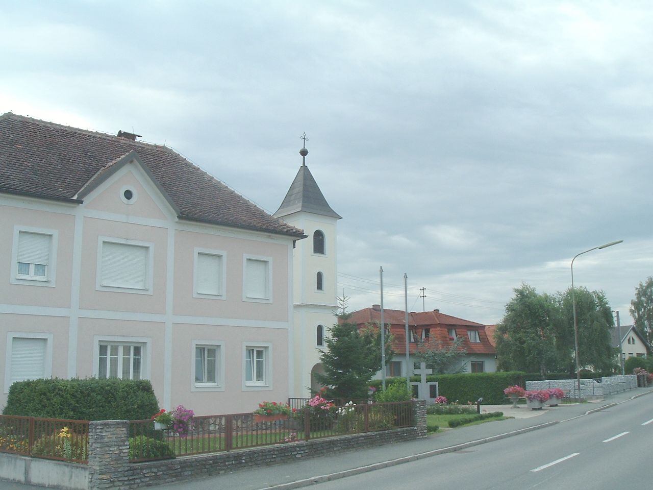 Kleinzicken (Kisciklény), Burgenland